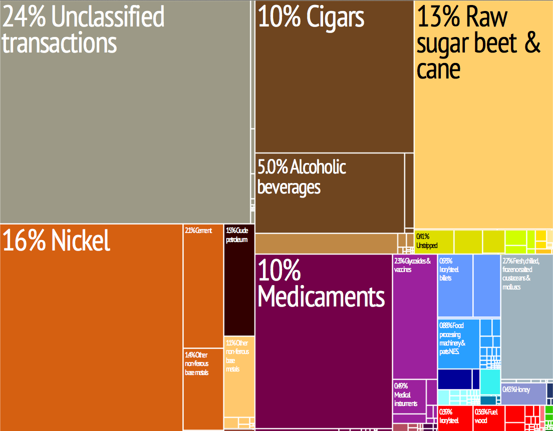 Export Trading Treemap. From MIT/Harvard Atlas of Economic Complexity